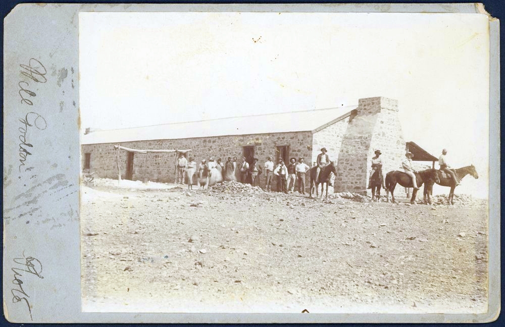 Shearers Hut, Durham Downs Station, Queensland Stte Library of Victoria